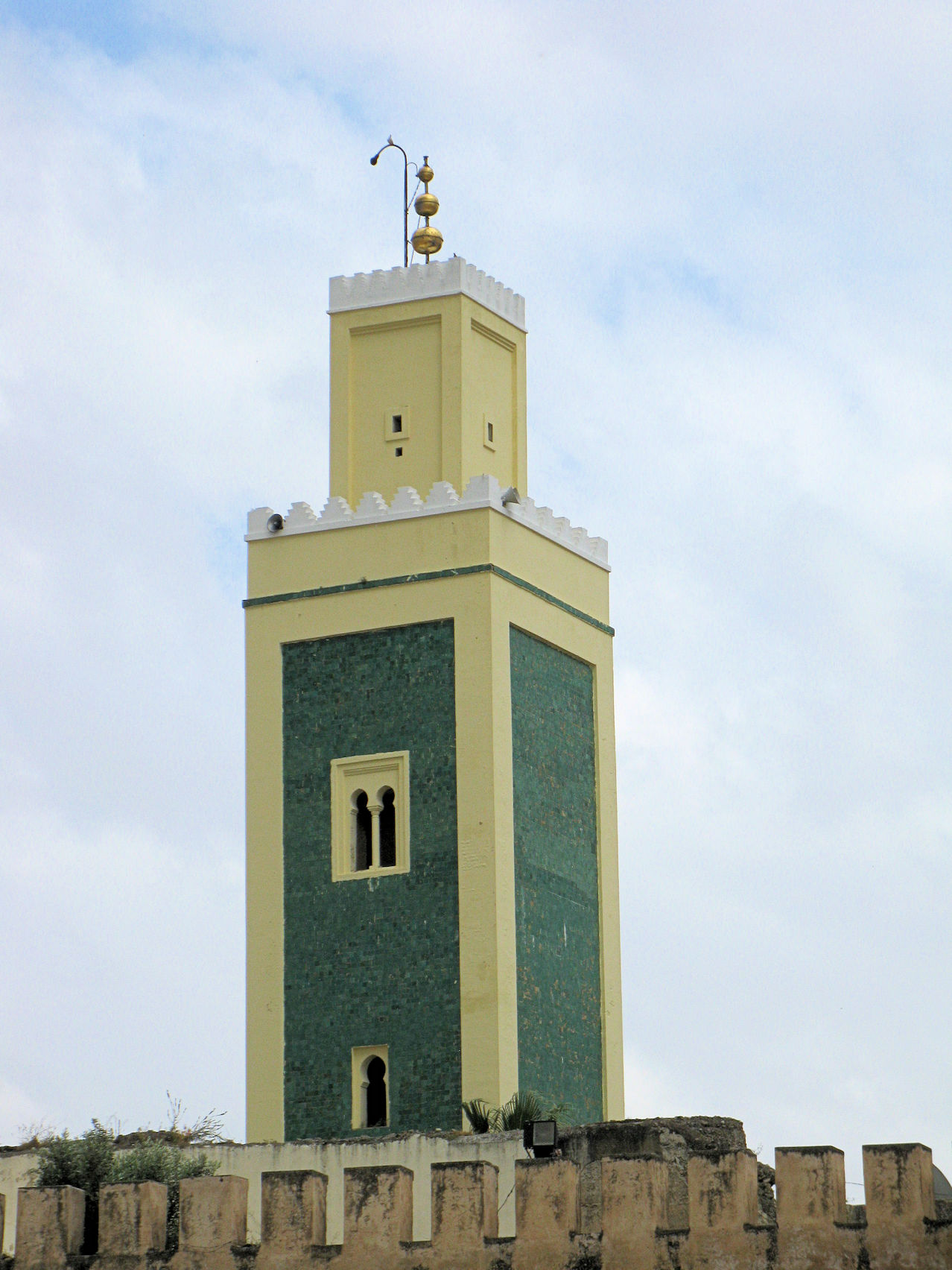 The minaret of the Lalla Aouda mosque, seen from the northwest.